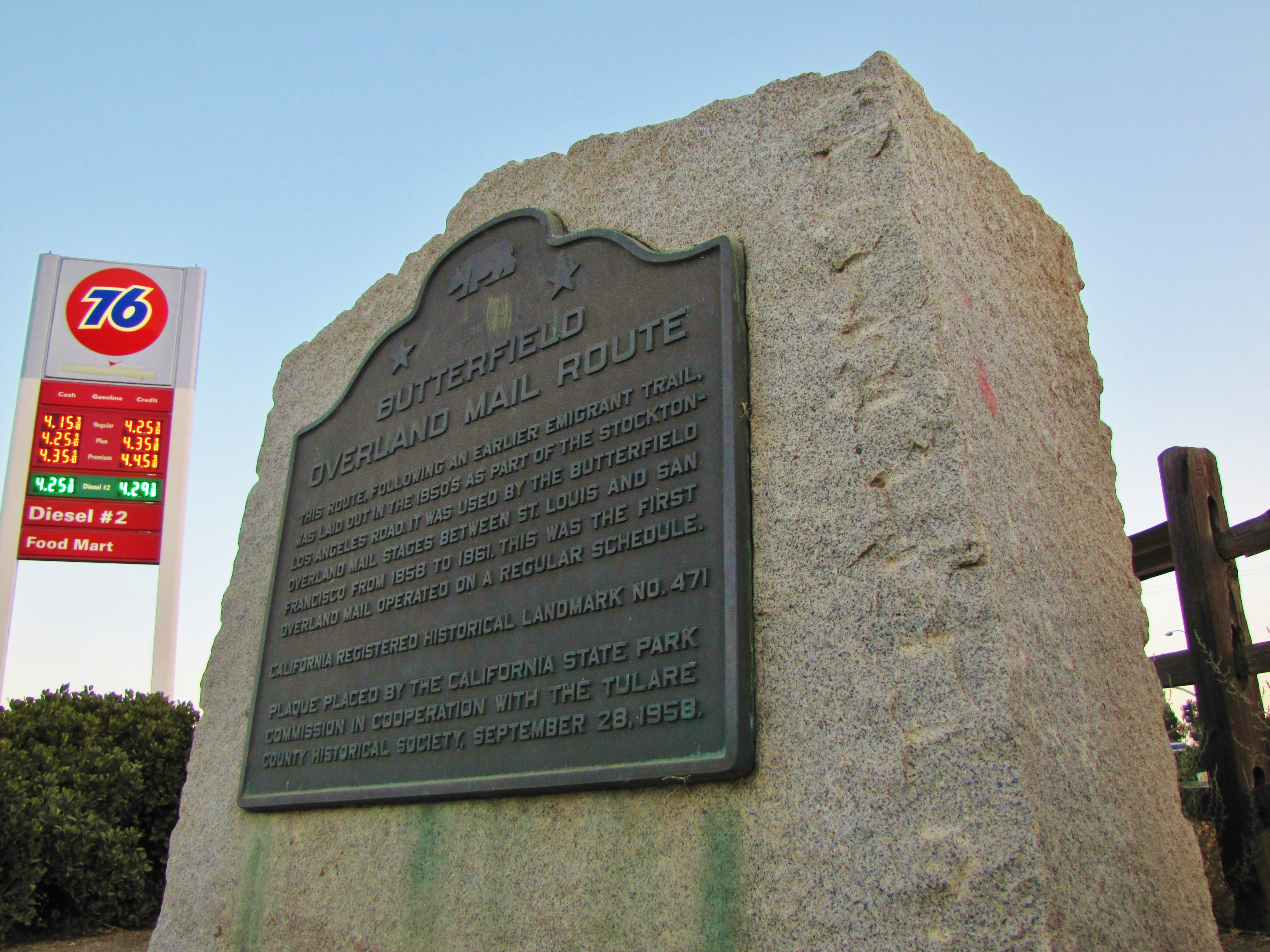 Butterfield Stagecoach Route California Historical Landmarks plaque — in Lindsay, San Joaquin Valley, California.